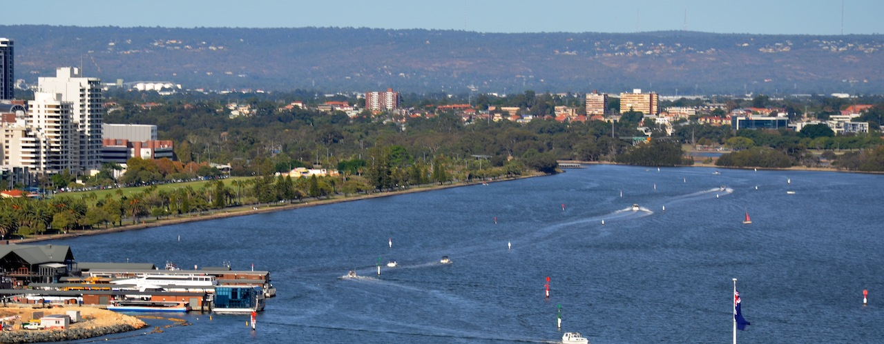 Perth Water, Perth, Western Australia. Marked navigable channel in use on Easter Sunday 5 April 2015 - parallel to Riverside drive. Darling Scarp on the eastern skyline, taken from Kings Park